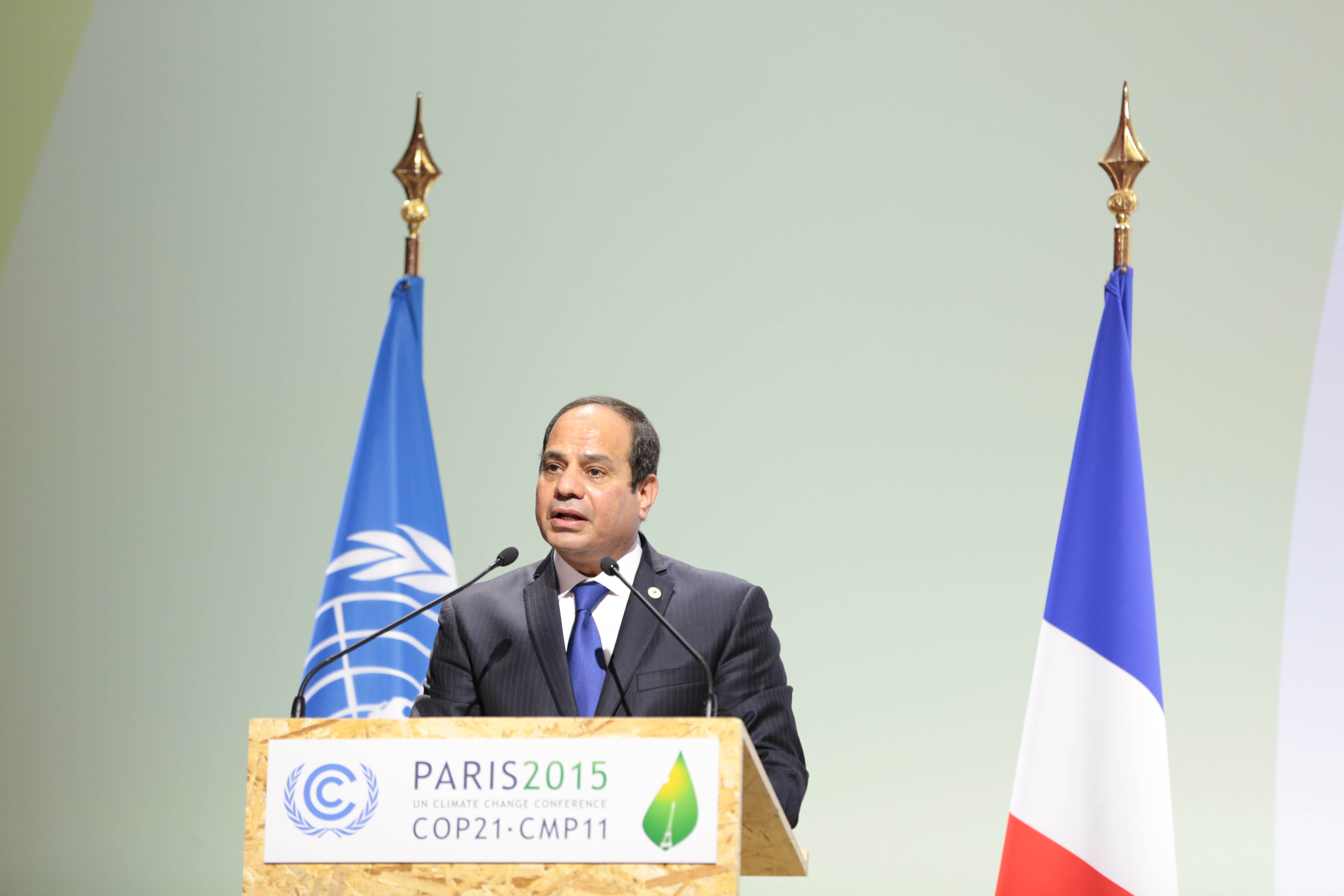 His Excellency Mr. Abdel Fattah El Sisi, President of Egypt